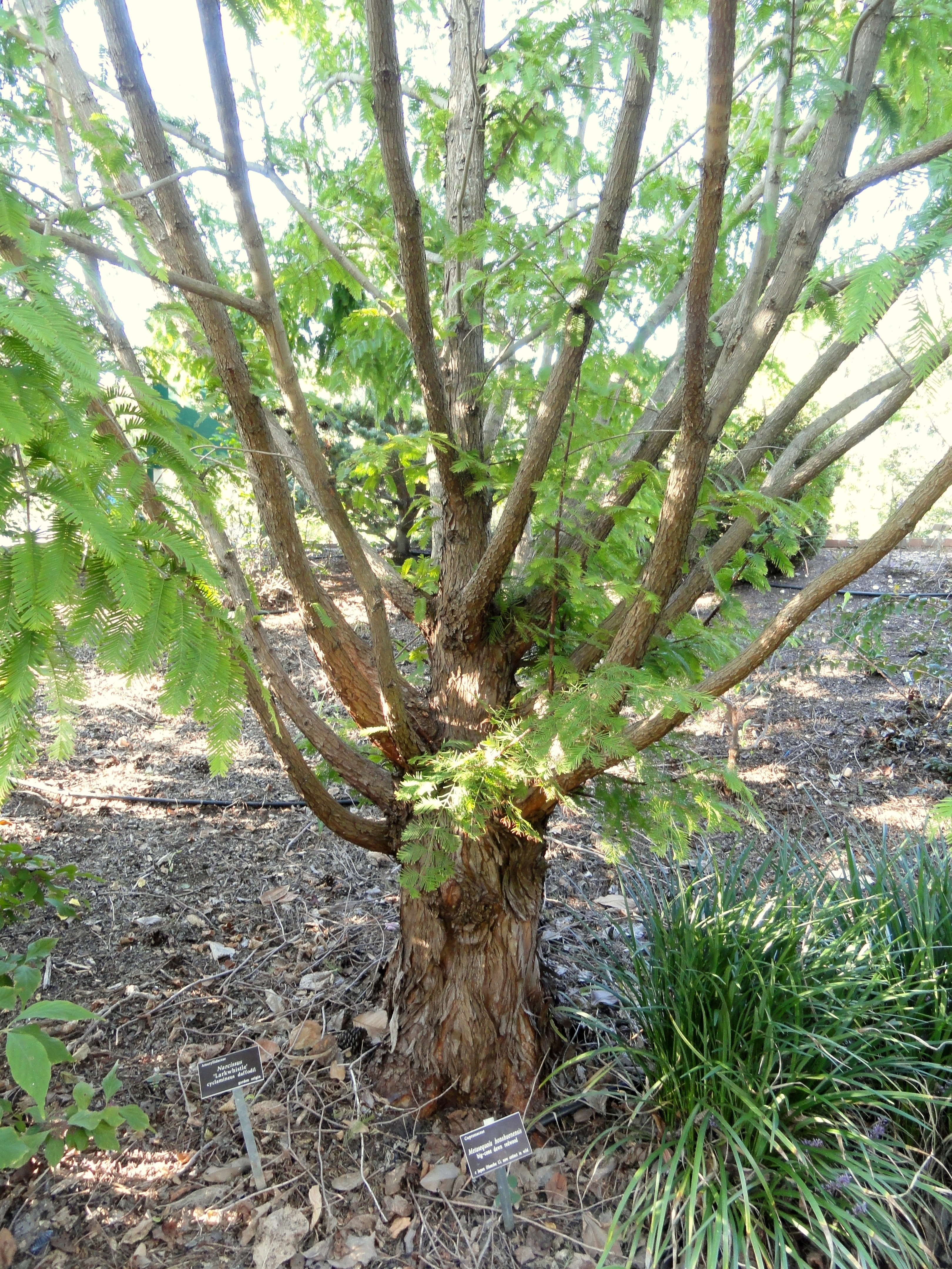 Metasequoia glyptostroboides (cultivated under synonym name "M. honshuenensis") specimen in the J. C. Raulston Arboretum (North Carolina State University), 4415 Beryl Road, Raleigh, North Carolina, USA.